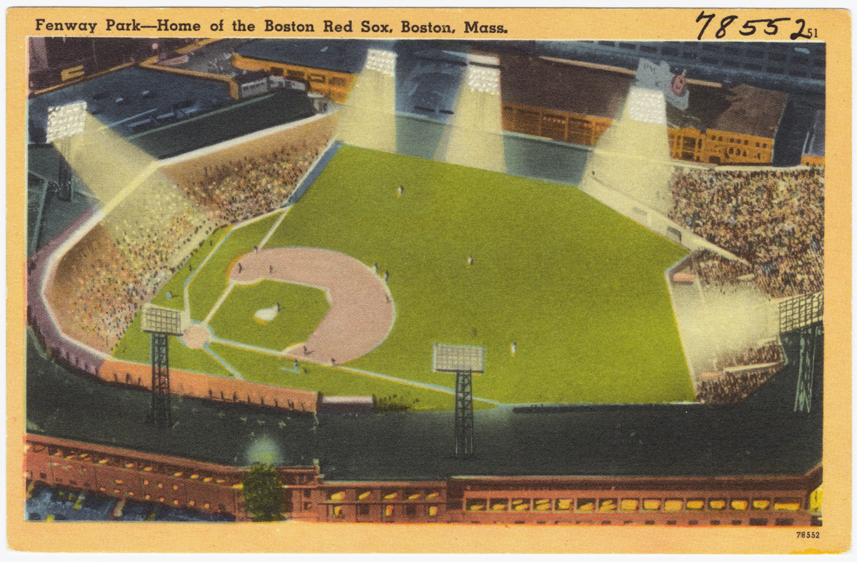 Accession No.: 06_10_000020 Subject: Boston (Mass.) Front Caption: Fenway Park -- Home of the Boston Red Sox, Boston, Mass. Back Caption: Fenway Park -- Home of the Boston Red Sox Baseball Team of the American League. It is located in Boston's Kenmore Square section, at Jersey and Lansdowne Streets and has a seating capacity of 35,000. It was opened in 1912 and in 1947 lighting equipment for night games was installed. Publishing information: Tichnor Bros. Inc., Boston, Mass. Format: postcard BPL Collection: Tichnor BPL Department: Print Department